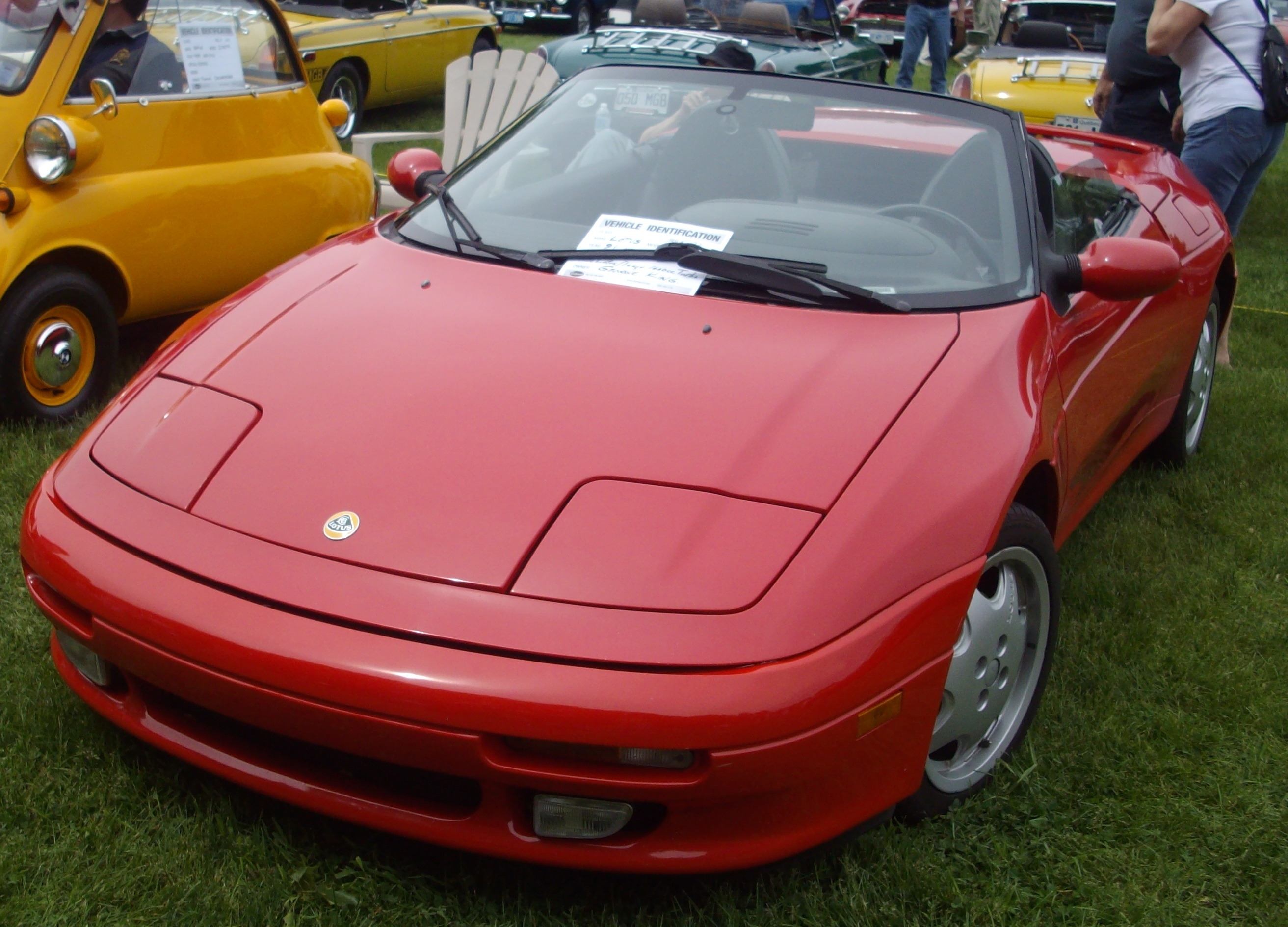 1991 Lotus Elan SE photographed in Hudson, Quebec, Canada at the 2012 Hudson British Car Show.